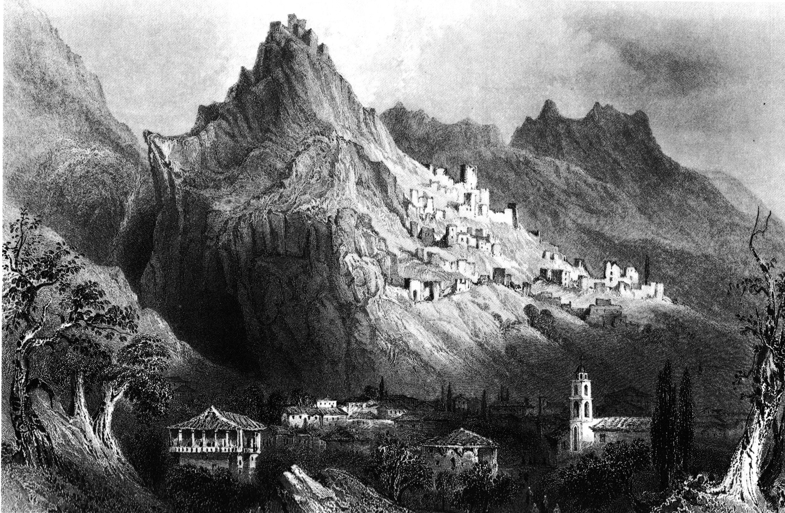 Mystras around 1850. Drawing by W.H. Bartlett, engraving by R. Sands.